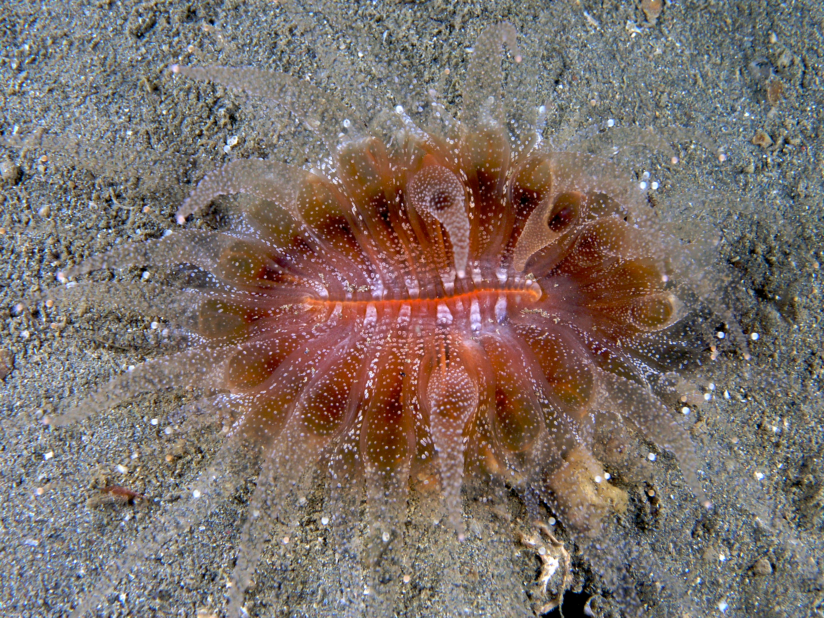 Flabellum sp. (Hard coral) with extended polyps at night